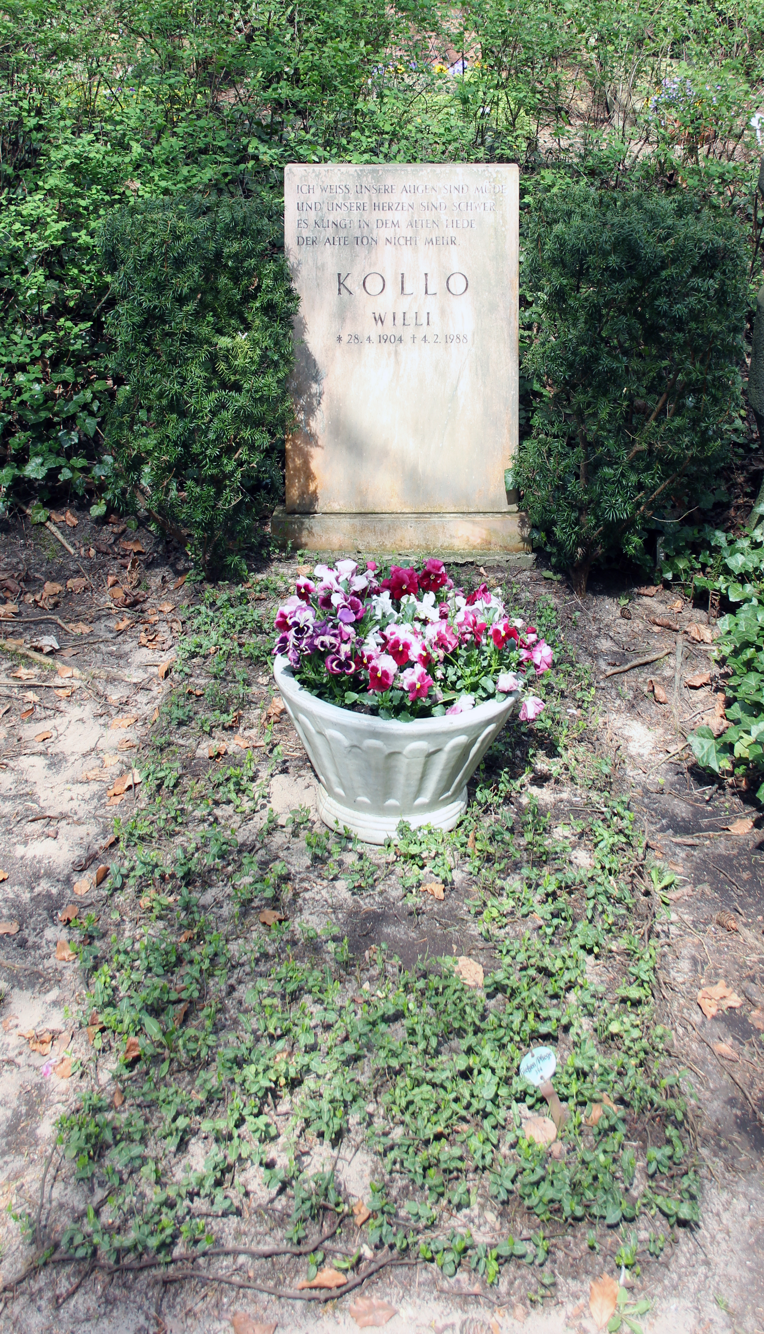 Grave, Willi Kollo, Trakehner Allee 1, Berlin-Westend, Germany